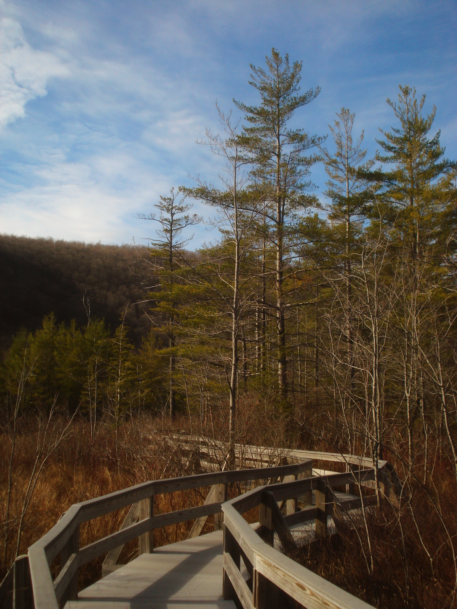 Boardwalk through the wetlands at the north end of Labrador Pond within the Labrador Hollow Unique Area in New York.